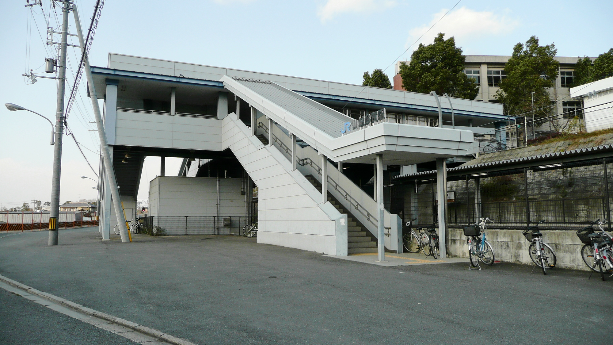 West Japan Railway Nara Line Yamashiro-Taga Station west entrance